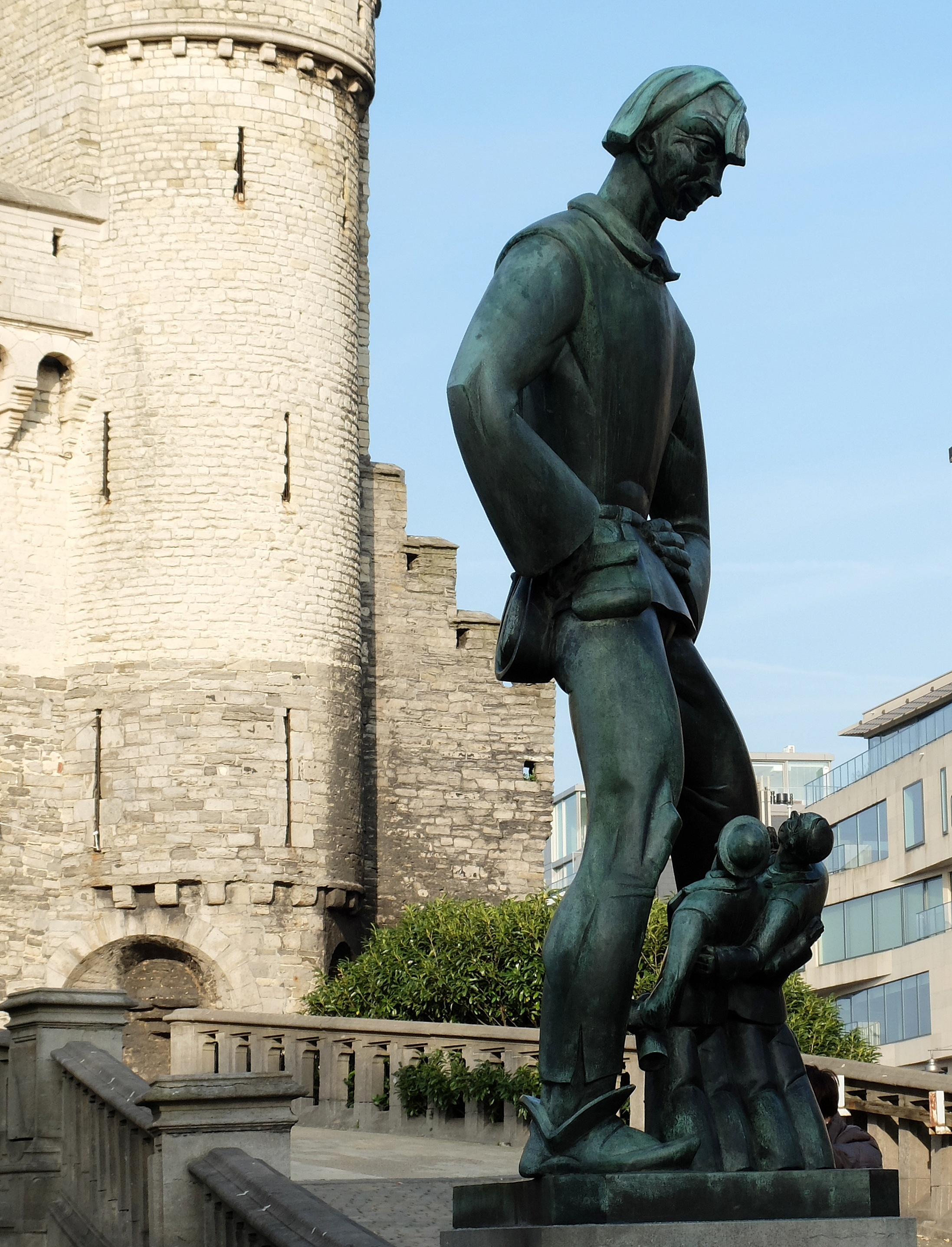 Lange Wapper in Antwerp by Het Steen